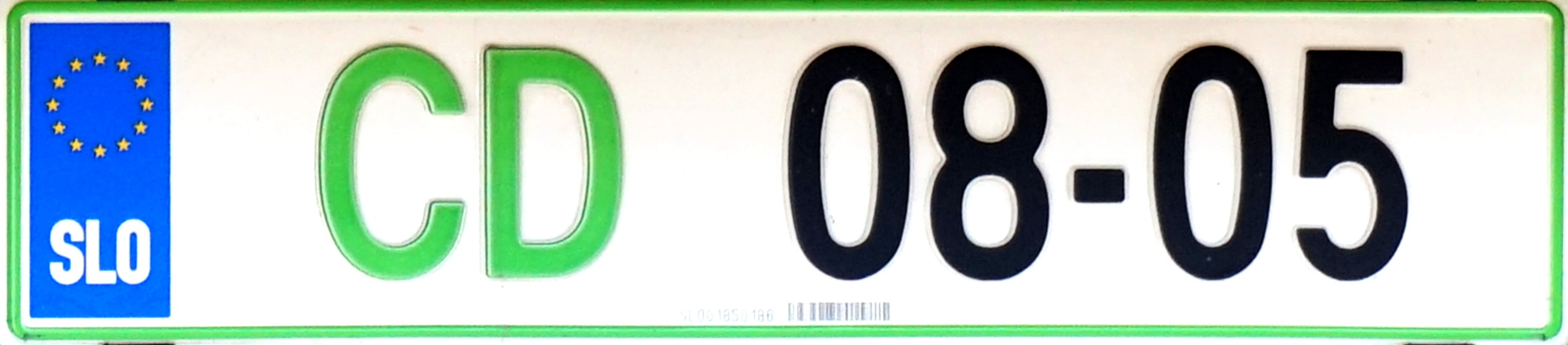 Slovenian diplomatic number plate CD (Corps Diplomatique). The first two digits denote the country/organisation; I have no reliable info what 08 stands for, but the vehicle was parked at Serbian embassy.